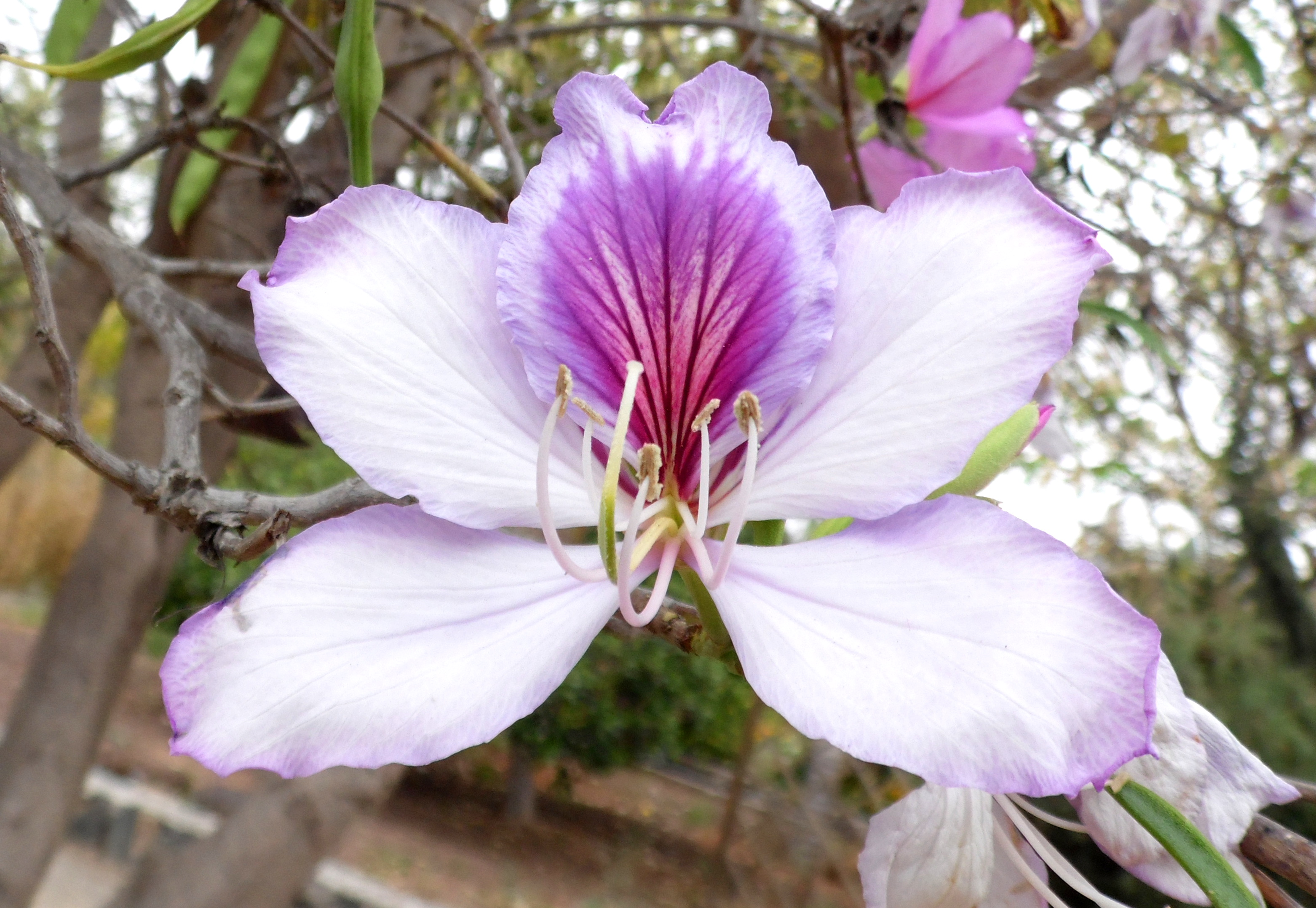 Bauhinia variegata in Parque Botánico de Maspalomas (Gran Canaria)